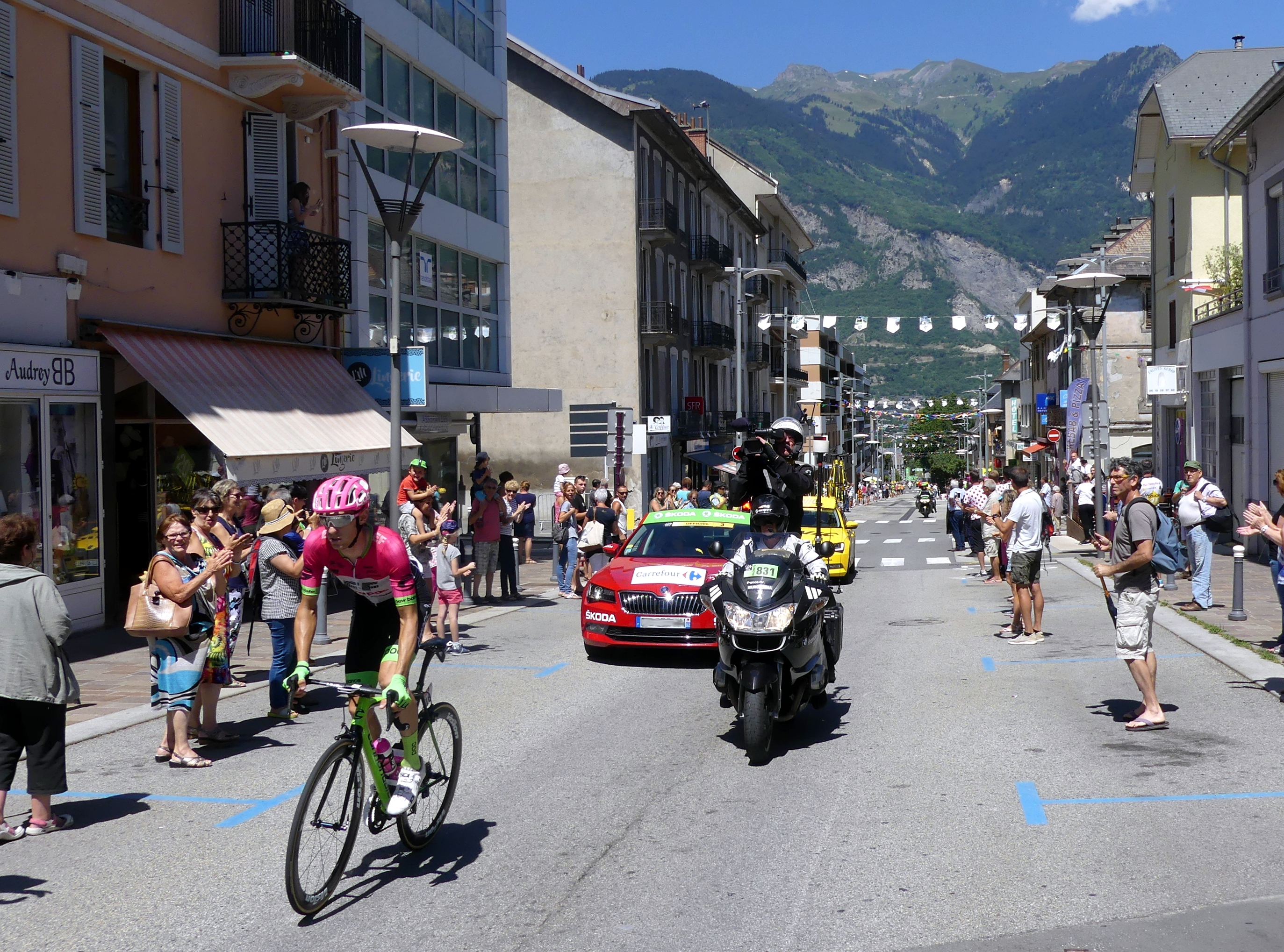 Sight of Pierre Rolland, first Tour de France 2018 rider passing at Saint-Jean-de-Maurienne during the step 12, city where starts the ascension of La Croix-de-Fer pass, in Savoie, France.